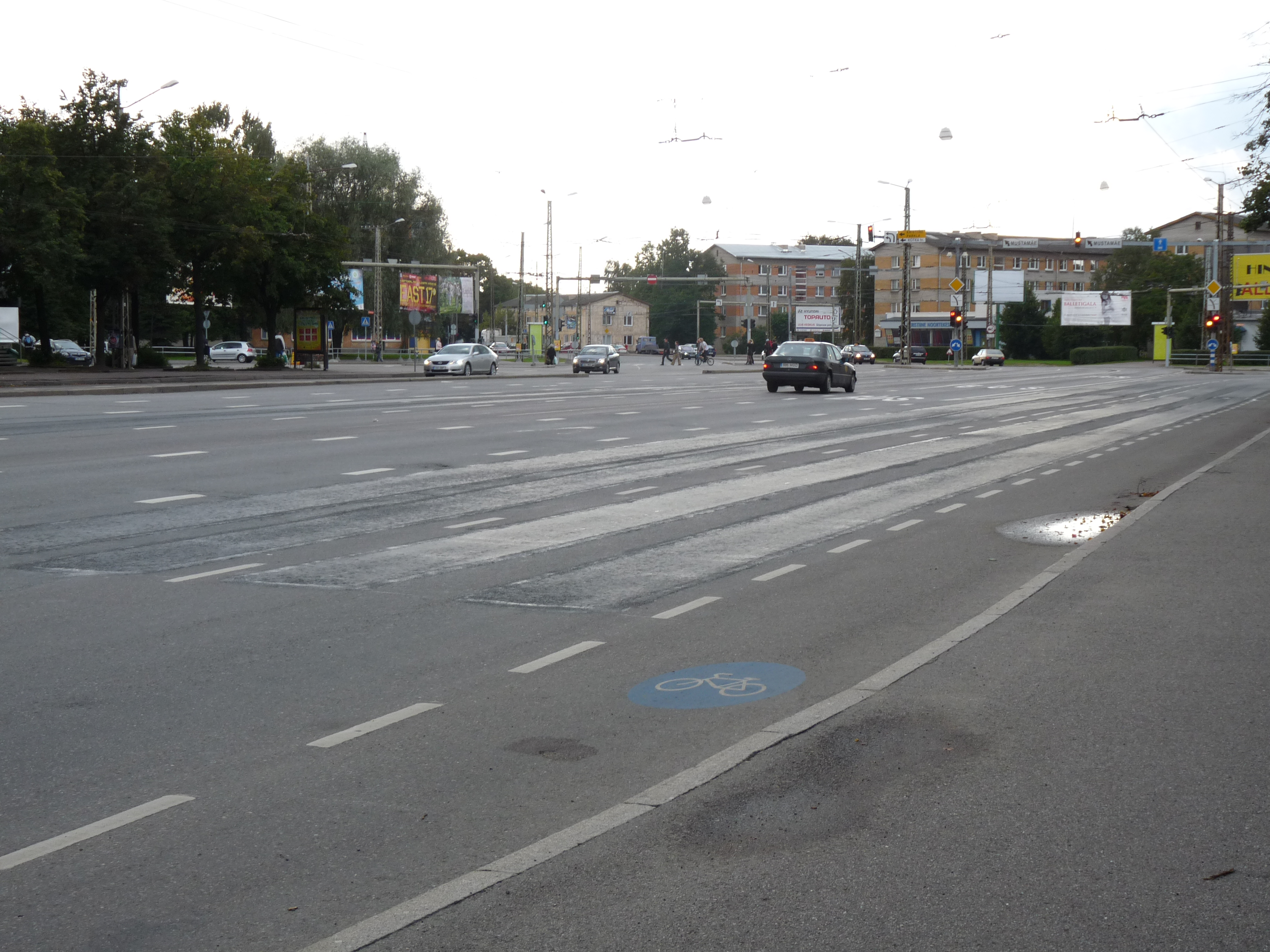 Endla street in Kristiine district